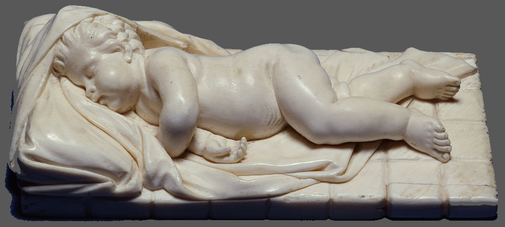 The subject of a sleeping infant in ivory was popular with collectors as an amusing response to Greek or Roman statues of a sleeping Cupid that were known in the Renaissance. The Antwerp collector Nicholas Rochox treasured a fragment of a Roman "Sleeping Cupid" among his antiquities. Ivory is perfect for suggesting the soft, smooth skin of a baby. The piece is signed and dated by Artus Quellinus the Elder. His ability to work on an intimate as well as large scale was considered as evidence of his ingenuity. The Flemish painter Peter Paul Rubens (1576-1640) owned ivories by him.